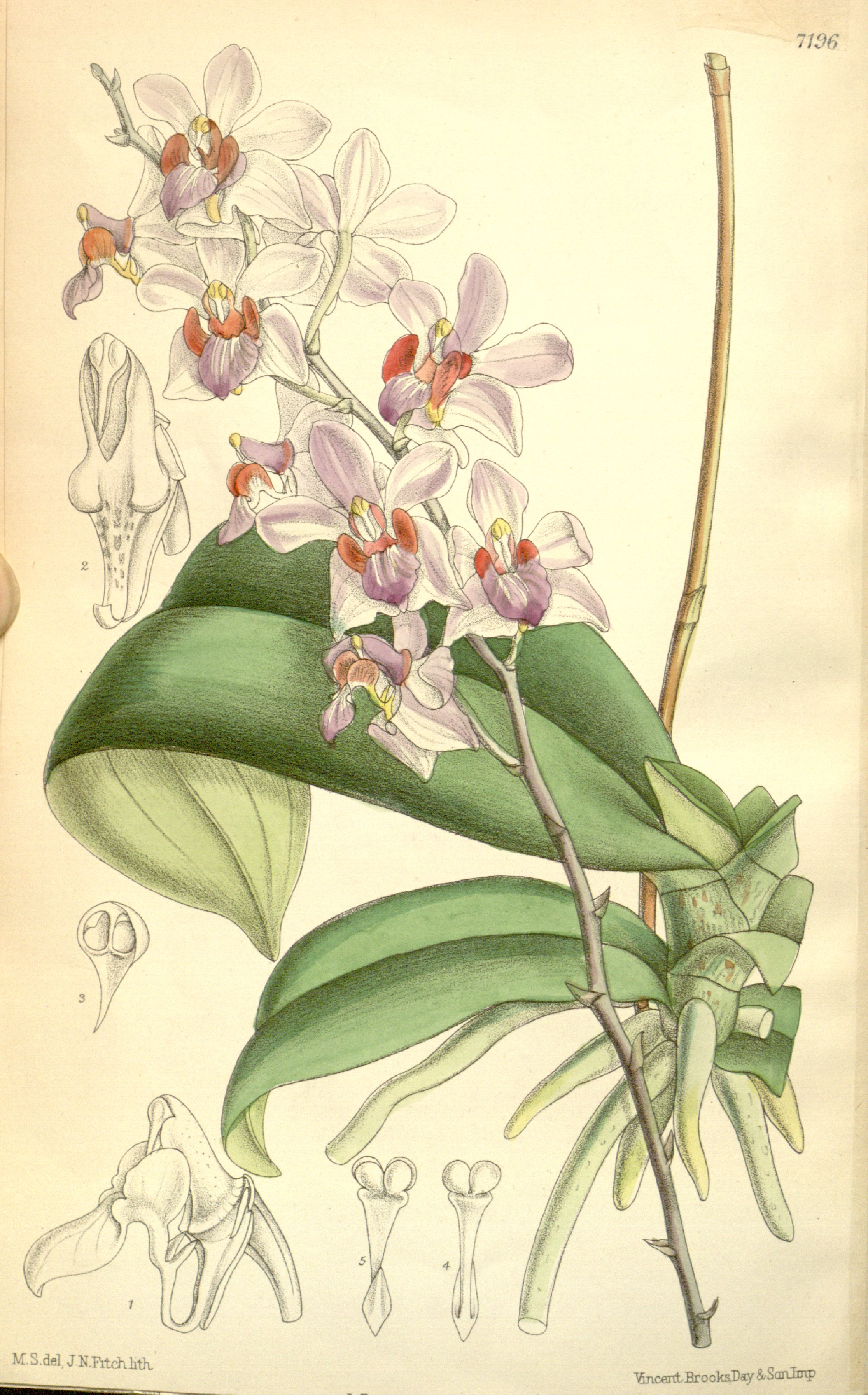 Illustration of Phalaenopsis pulcherrima (as syn. Phalaenopsis esmeralda)